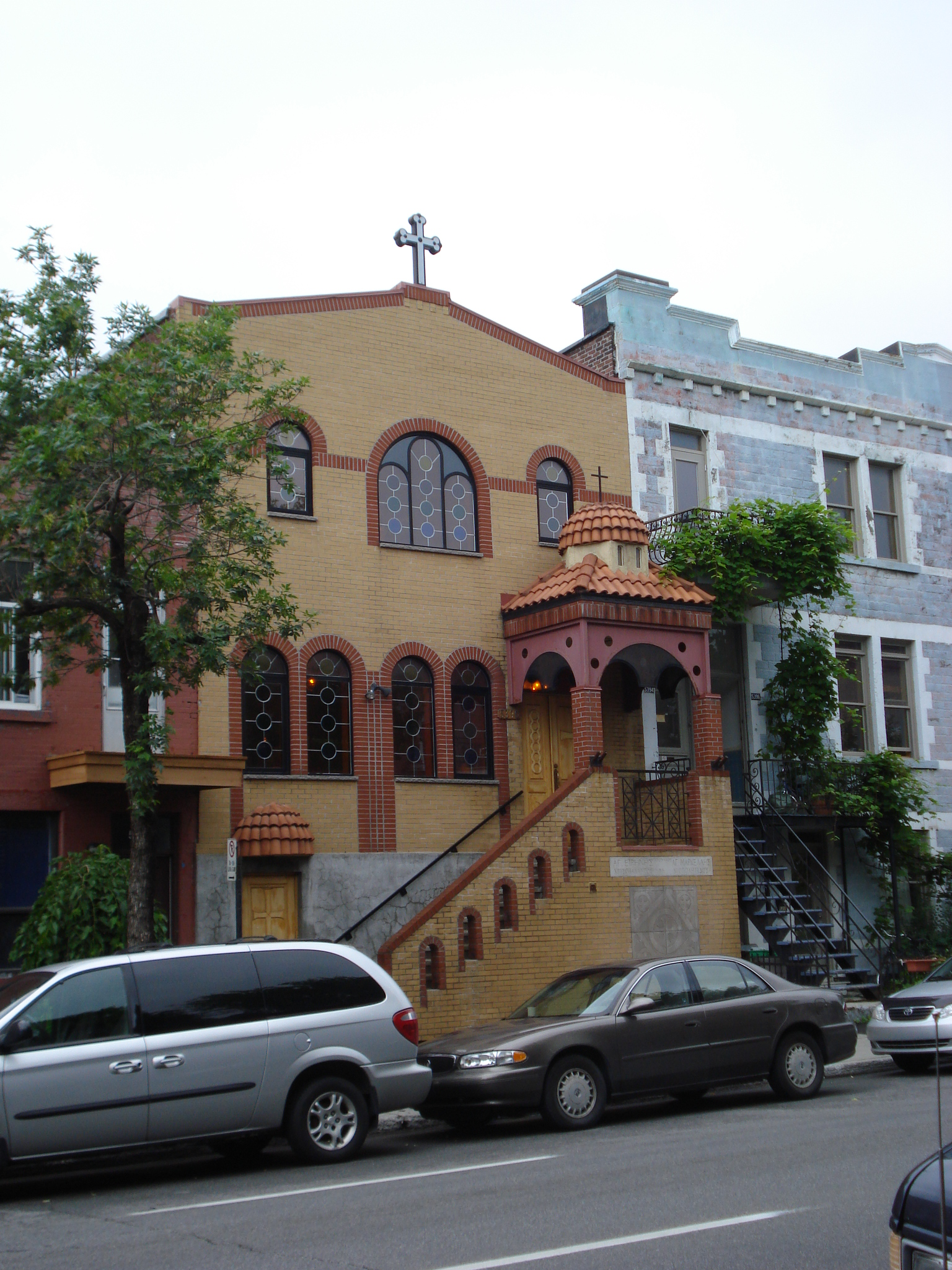 St. Markella Greek Orthodox Church of Montreal